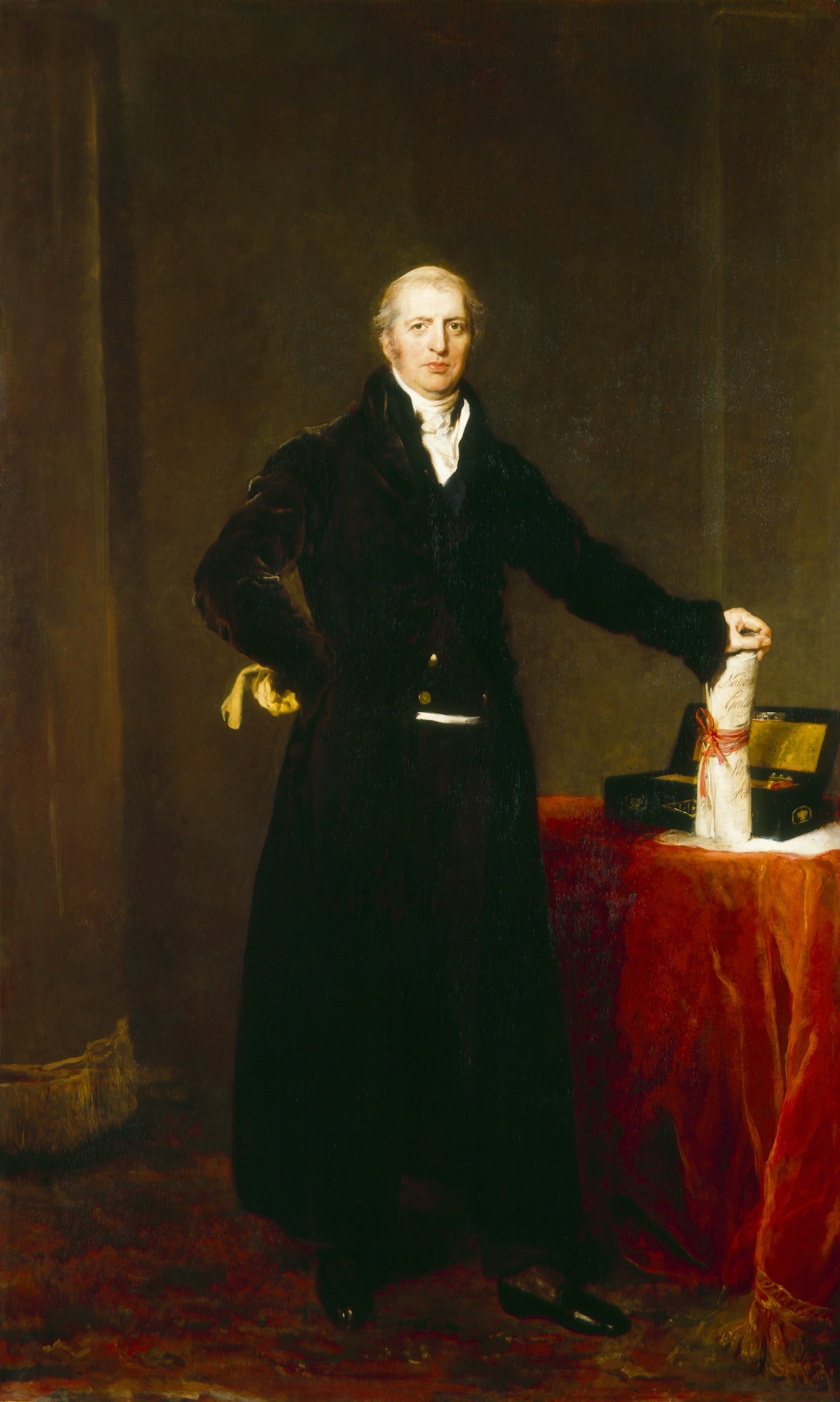 Portrait of Robert Jenkinson (1770–1828)